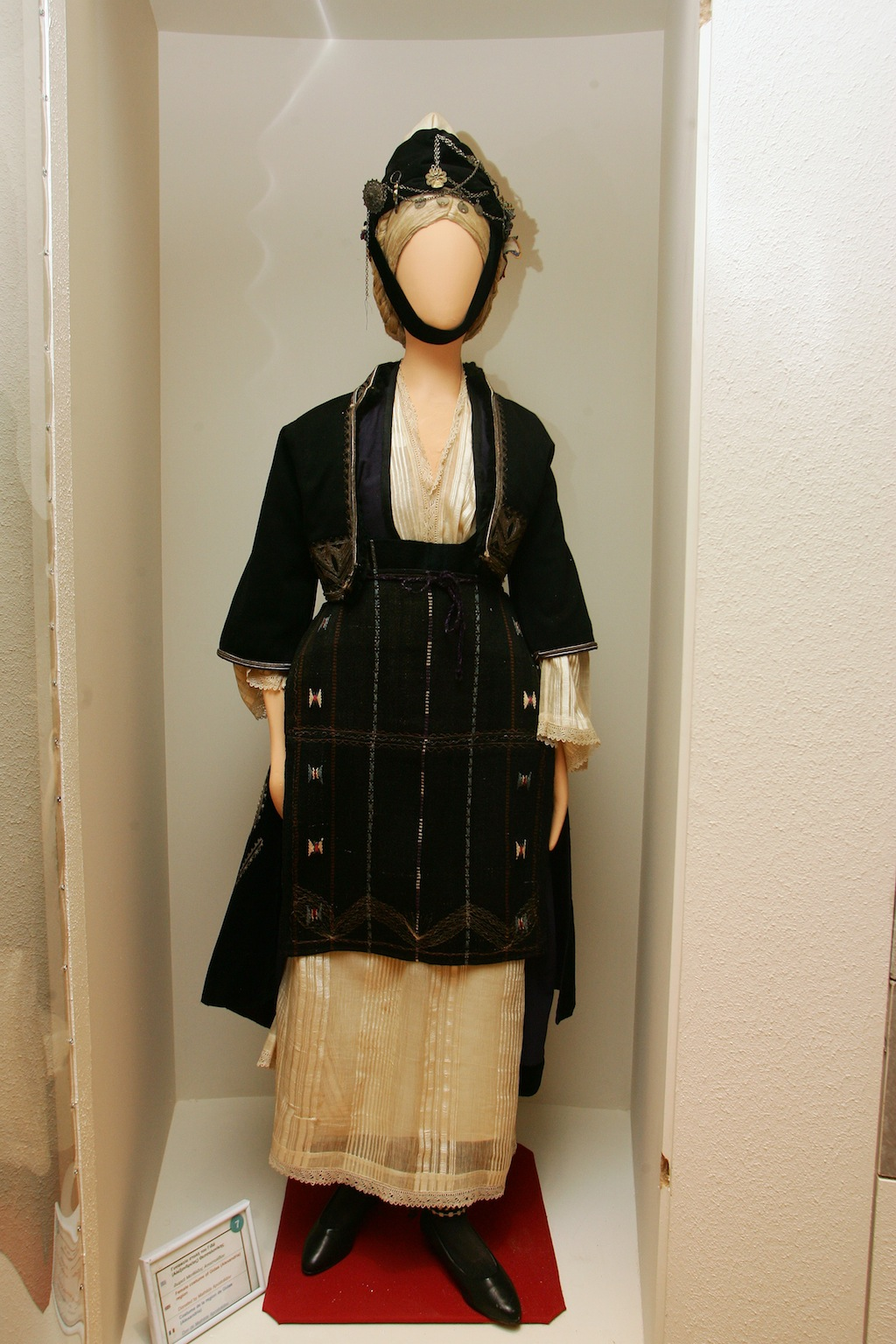 Traditional macedonian costume from Alexandria, Imathia prefecture, Macedonia, Greece